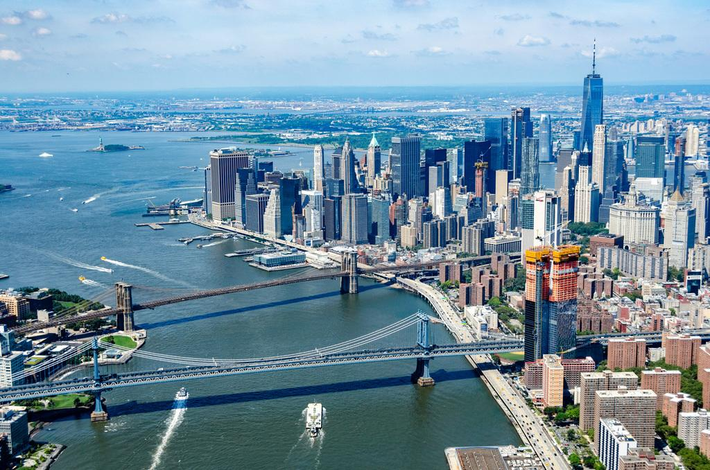 New York, N.Y., Jul. 21, 2017--The New Jersey Army National Guard (NJANG) Aviation Program has generously offered their support to conduct an aerial view/survey of the Gotham Shield Exercise covering the New York / New Jersey area. FEMA Region II and NYCEM personnel were among those who took part in the flights. The overall objective is to gain increased training knowledge and experience from an ‘outside-in’ approach and to improve our national capacity to build, sustain, and deliver core capabilities. FEMA/K.C.Wilsey